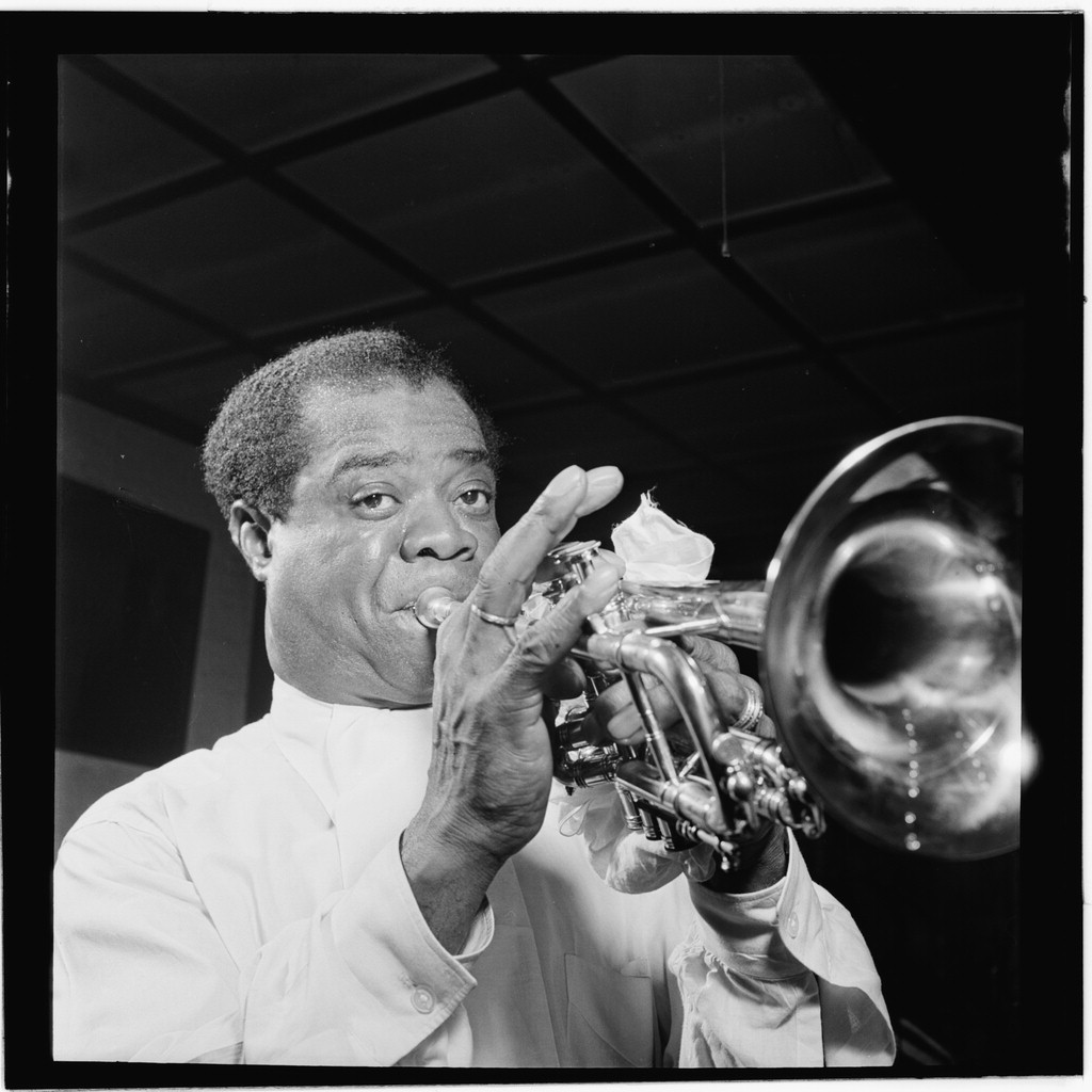 Gottlieb, William P., 1917-, photographer. [Portrait of Louis Armstrong, Carnegie Hall, New York, N.Y., ca. Apr. 1947] 1 negative : b&w ; 2 1/4 x 2 1/4 in. Caption from Down Beat: [from article] My photo of Louis shows him just before the concert. The horn you see belongs to Bobby Hackett. Louis' had just been stolen. Satchmo' had to borrow a mute, too. All he had of his own for the concert was his mouthpiece, which he had in his pocket when the thief grabbed his case. Horn has since been recovered at a pawn shop. Notes: Gottlieb Collection Assignment No. 010 Reference print available in Music Division, Library of Congress. Purchase William P. Gottlieb Forms part of: William P. Gottlieb Collection (Library of Congress). In: The Record Changer, v. 6, no. 2 (Apr. 47, 1947), p. 7. Subjects: Armstrong, Louis, 1900-1971 Jazz musicians--1940-1950. Trumpet players--1940-1950. Carnegie Hall Format: Portrait photographs--1940-1950. Film negatives--1940-1950. Rights Info: Mr. Gottlieb has dedicated these works to the public domain, but rights of privacy and publicity may apply. Repository: (negative) Library of Congress, Prints & Photographs Division, Washington D.C. 20540 USA, (contact print) Library of Congress, Prints & Photographs Division, Washington D.C. 20540 USA, (reference print) Library of Congress, Music Division, Washington D.C. 20540 USA, Part Of: William P. Gottlieb Collection (DLC) 99-401005 General information about the Gottlieb Collection is available at Persistent URL: Call Number: LC-GLB23- 0015 This work is from the William P. Gottlieb collection at the Library of Congress. Rights and restrictions. In accordance with the wishes of William Gottlieb, the photographs in this collection entered into the public domain on February 16, 2010.